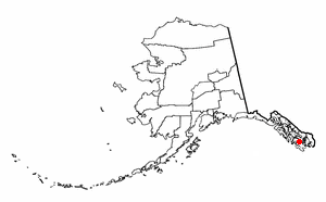 Adapted from Wikipedia's AK borough maps by Seth Ilys.